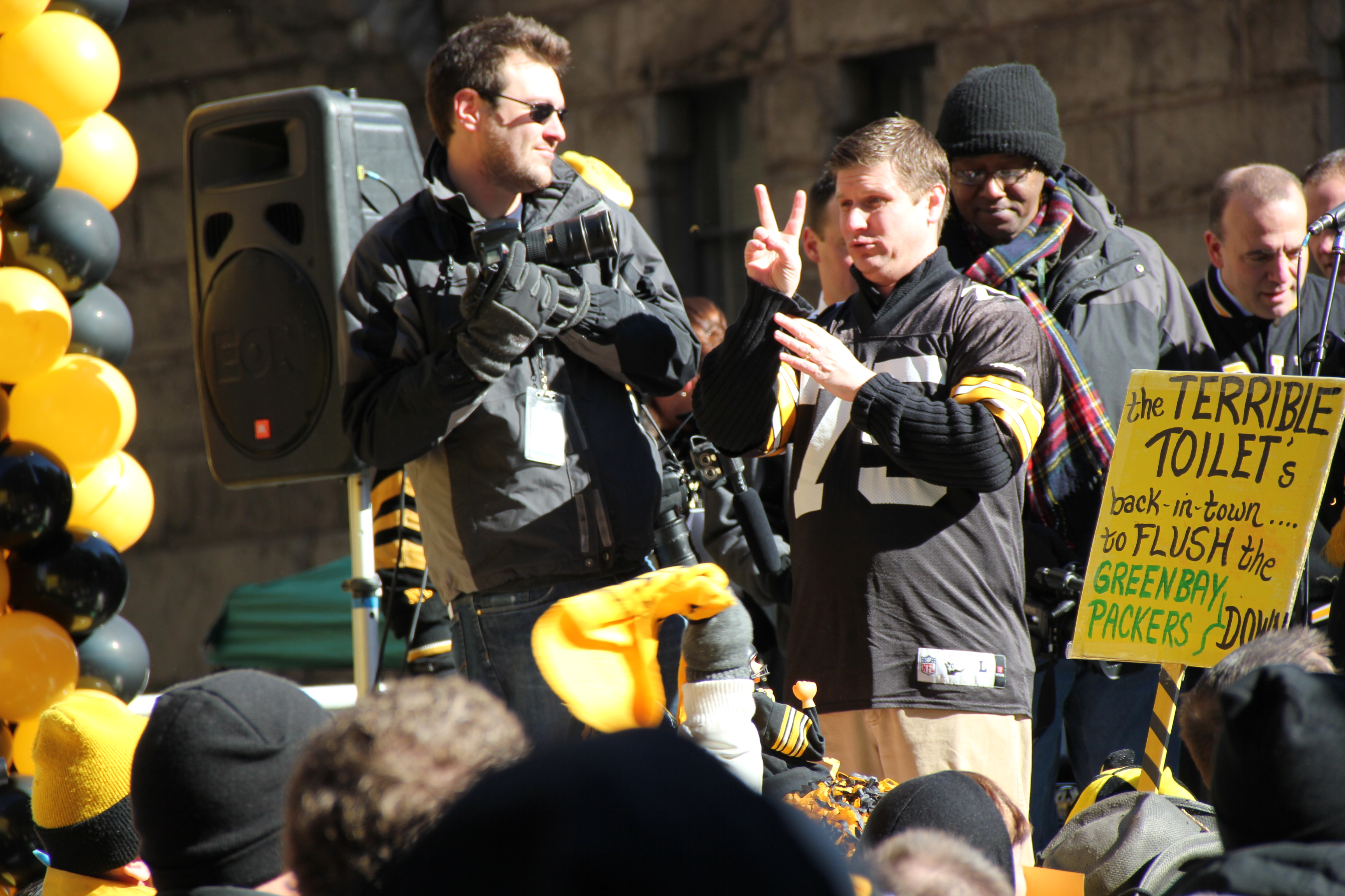 A sign language interpreter provides services at a rally for the Pittsburgh Steelers before Super Bowl XLVin Pittsburgh. He's wearing a Joe Greene jersey. Dan Onorato makes a cameo.